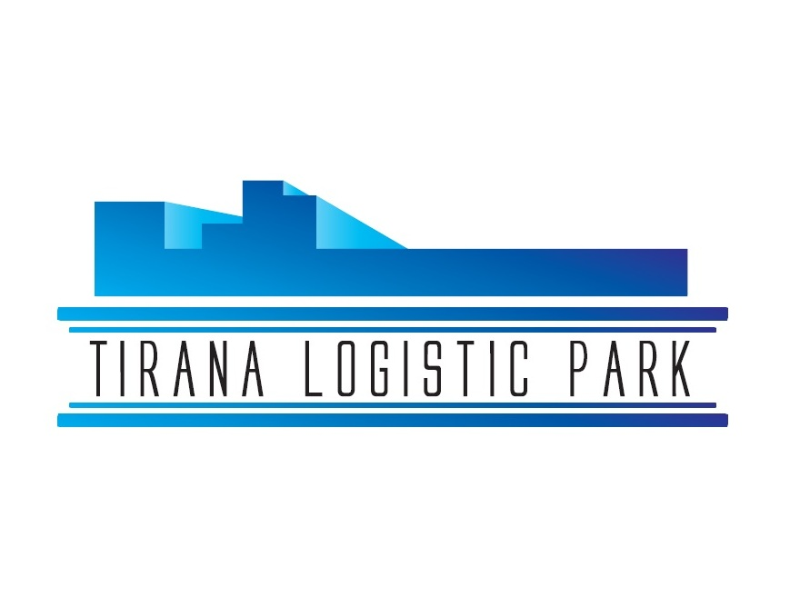 Logo of TLP